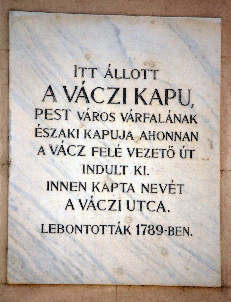 Váci Gate commemorative plaque in Budapest District V, Váci Street No 1-3.